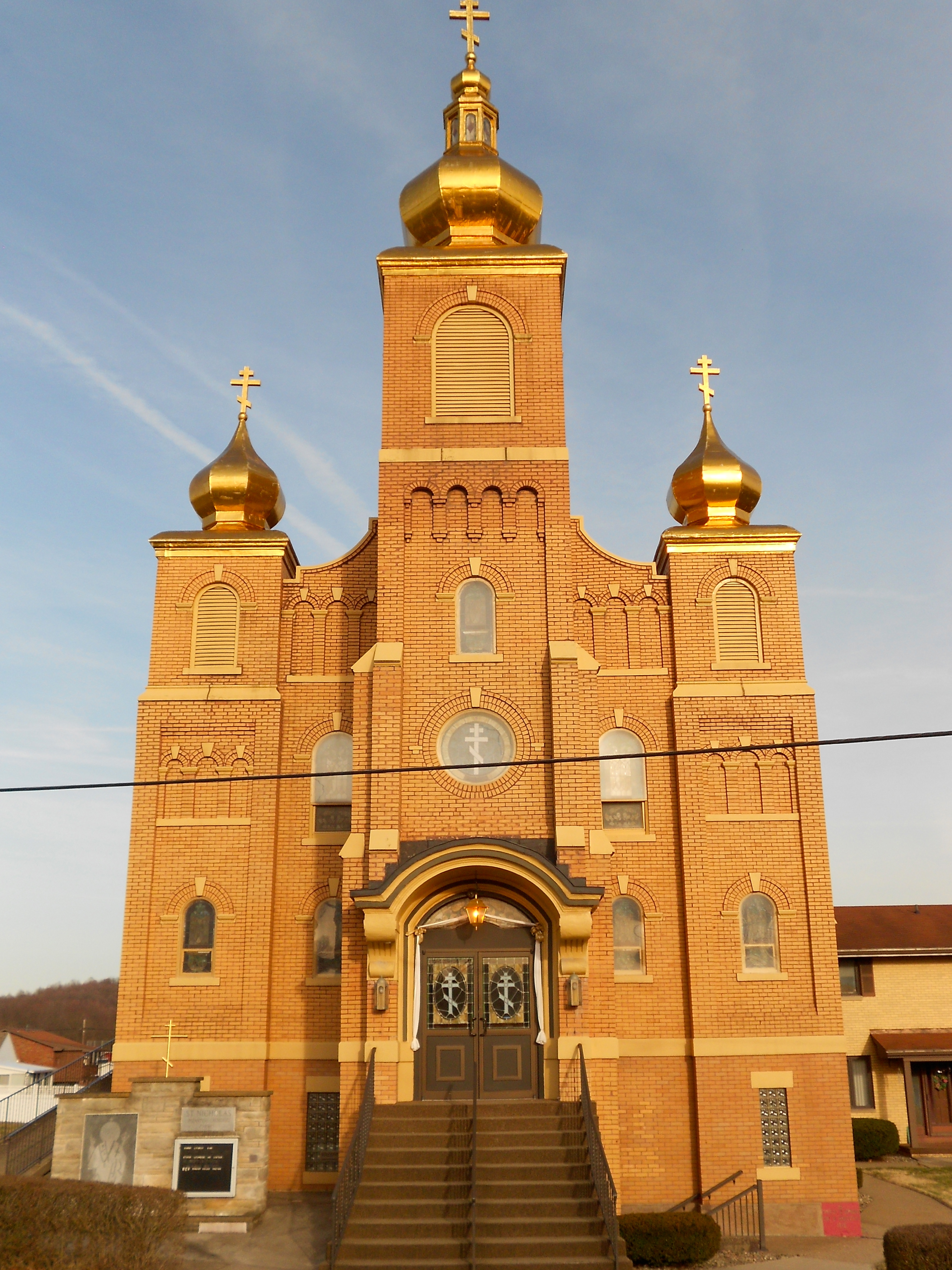 St. Nicholas Byzantine Catholic Church on the NRHP since November 7, 1997 at 504 South Liberty Street, Perryopolis, Pennsylvania. A Byzantine Catholic Church is part of the Roman Catholic Church, serving Ukrainians, Ruthenes, and Polish peoples, originally with Eastern Orthodox rites and marrying priests. It may have changed in the US